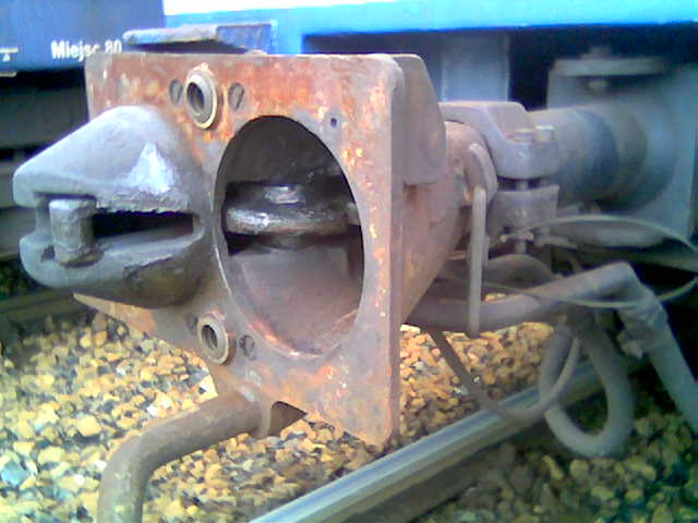 Scharfenberg coupler -- polish electric multiple unit EN94 in colours of WKD.